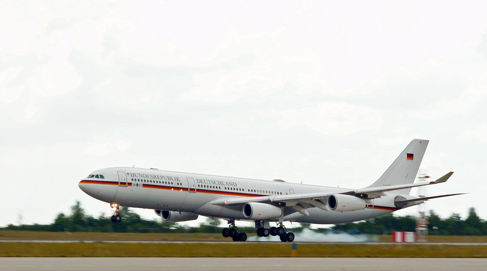 Airbus A340 of the German government, the so called „Konrad Adenauer“ at Leipzig/Halle Airport